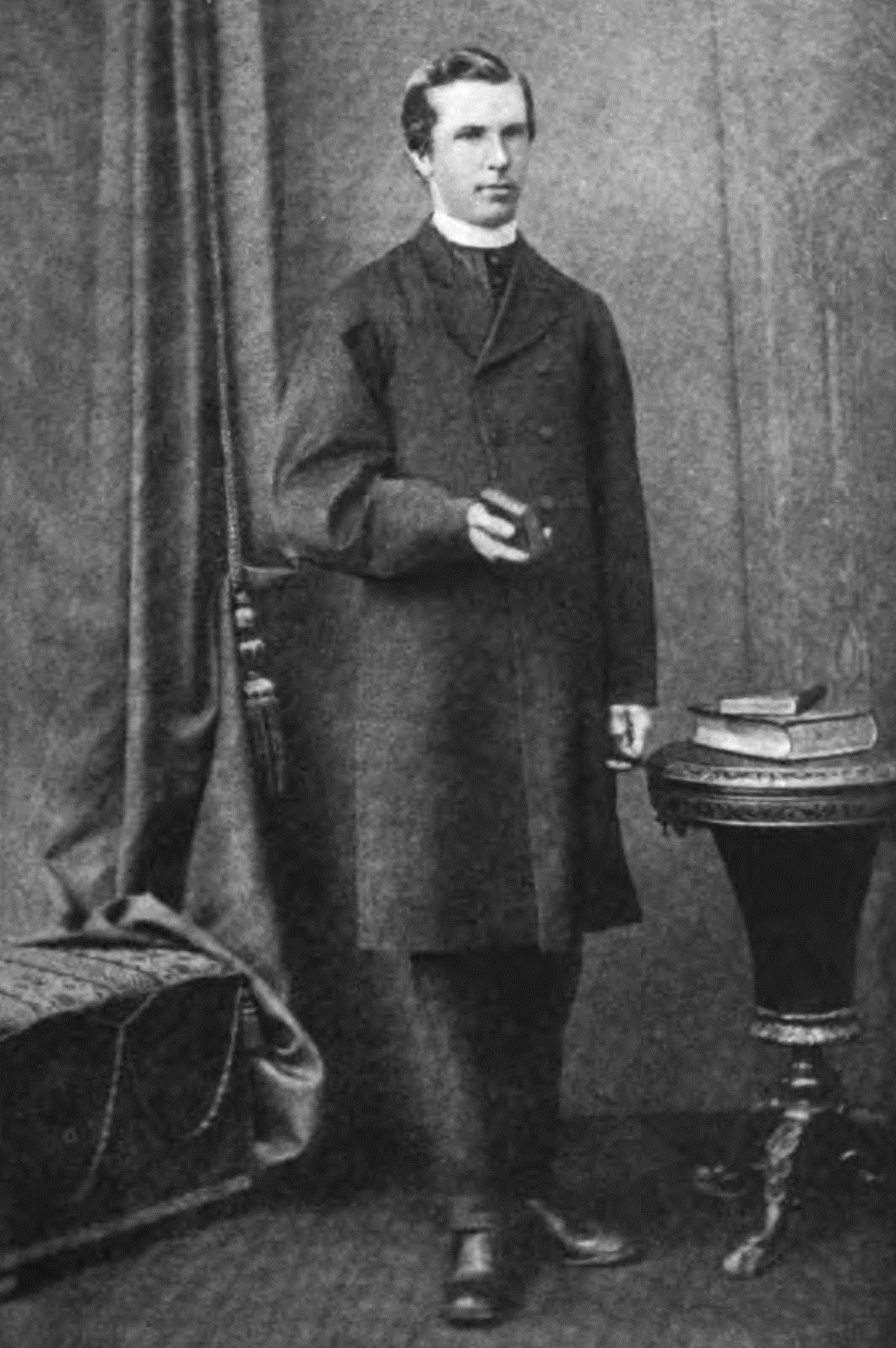 Patrick Augustine Sheehan, at the time of his ordination